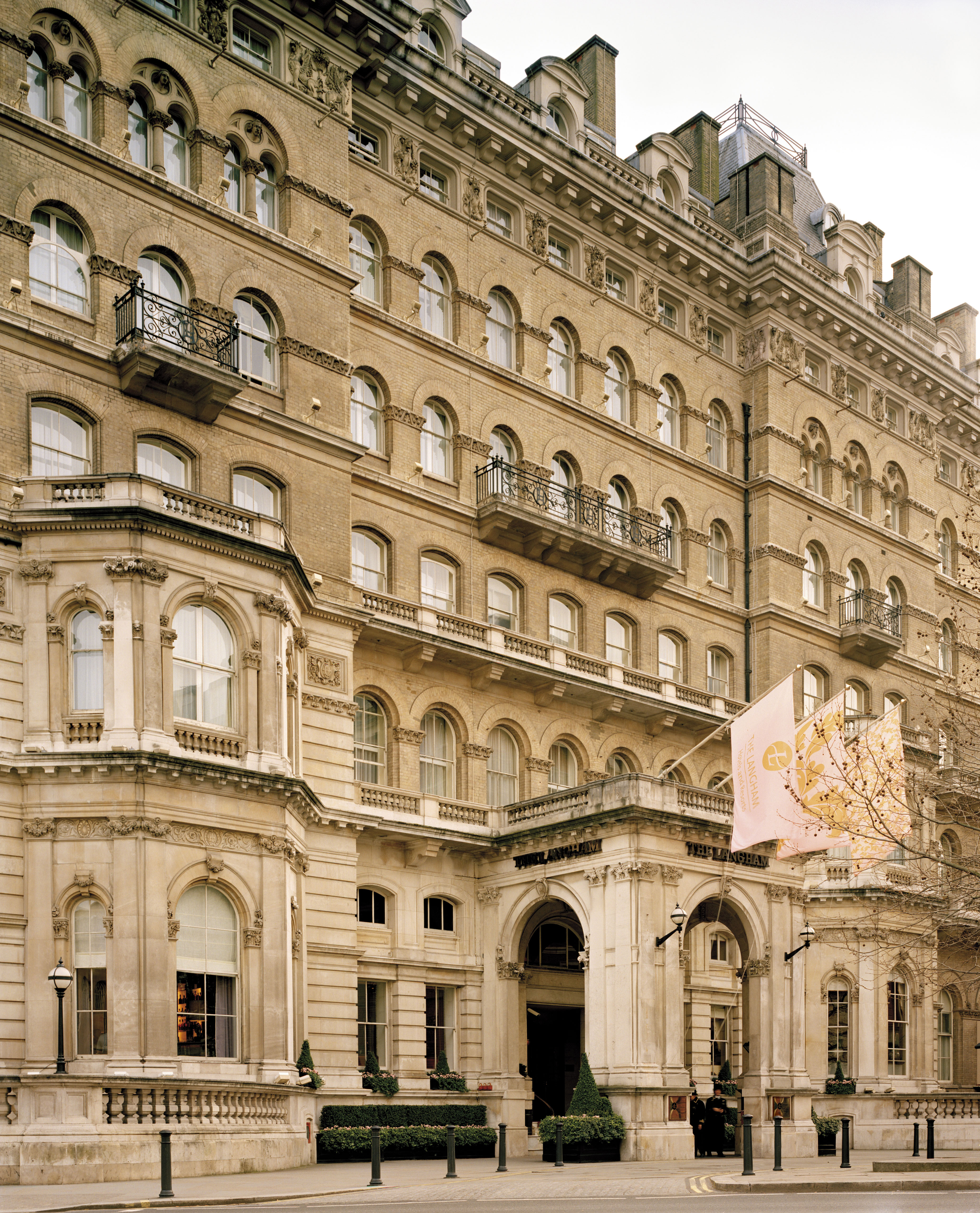 Exterior of The Langham, London